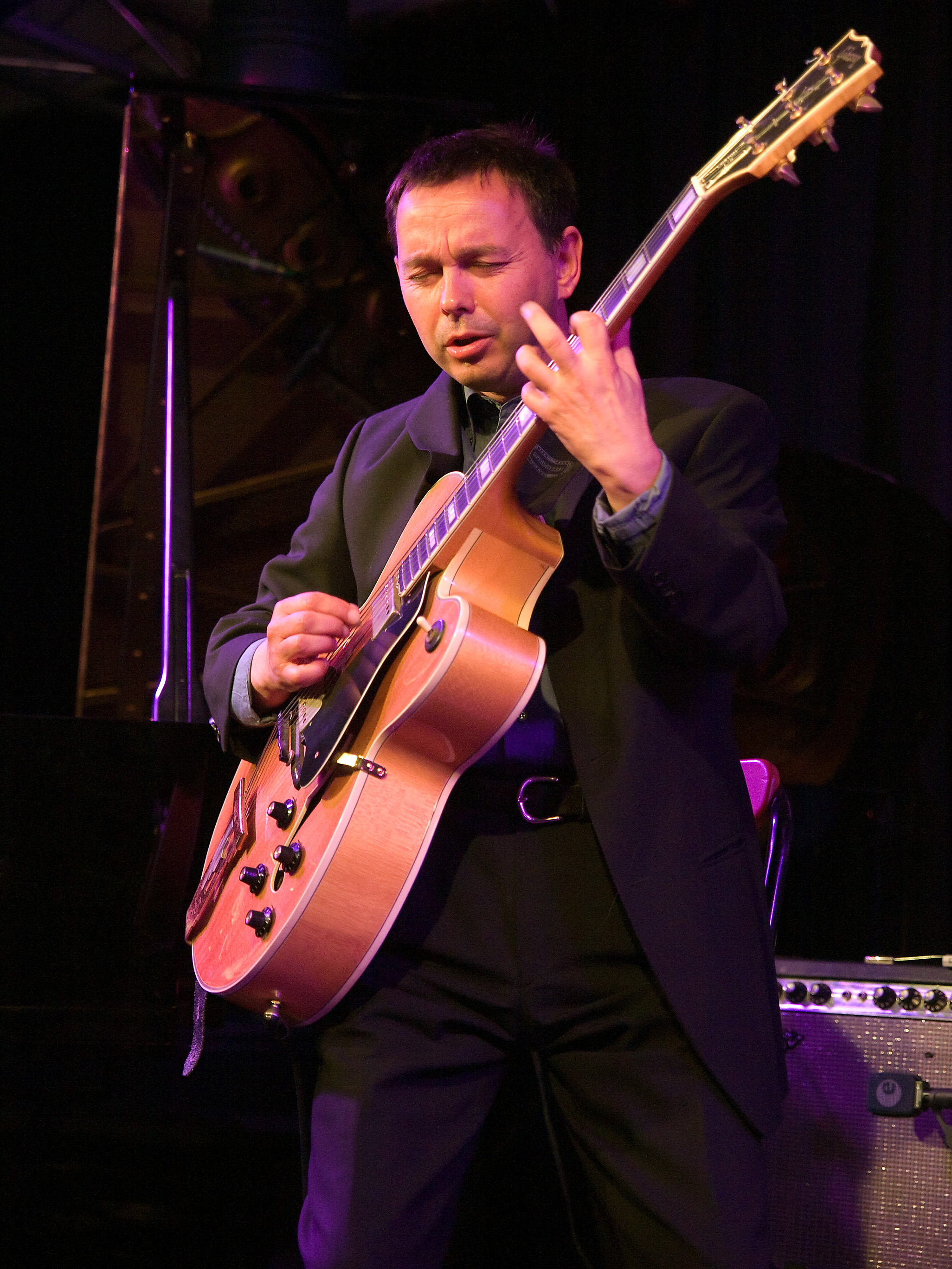 Philipp Stauber, Jazz guitarist; Picture taken in Jazz Club Unterfahrt, Munich/Bavaria